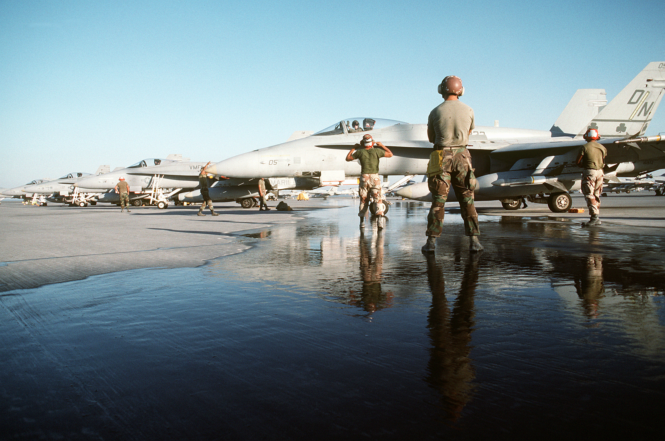 A U.S. Marine Corps plane captain marshals a McDonnell Douglas F/A-18A Hornet fighter from Marine fighter-bomber squadron VMFA-333 Fighting Shamrocks onto the taxiway during operation "Desert Shield" on 1 April 1992.